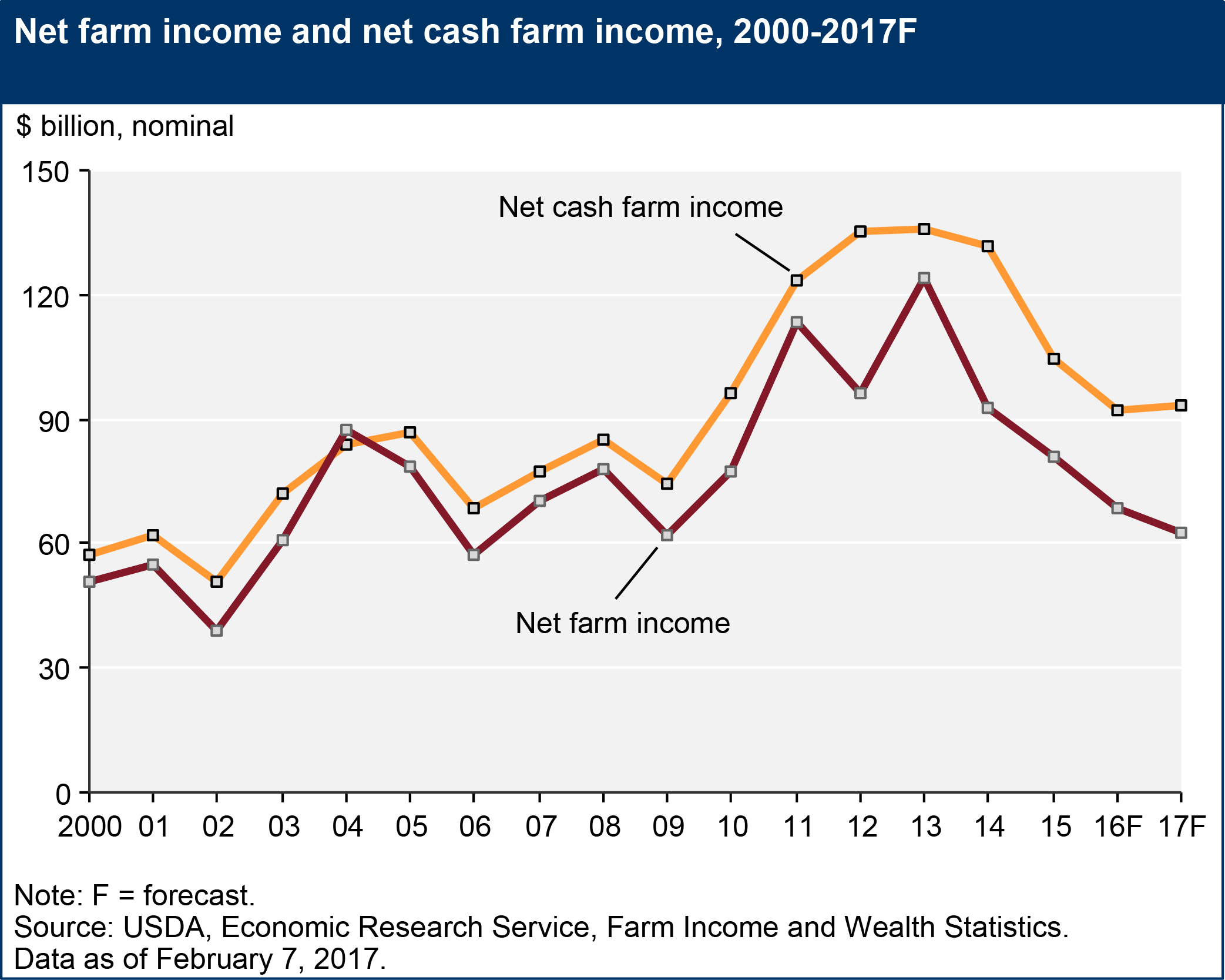 Flickr description Net farm income and net cash income, 2000 — 2017 (forecast). SOURCE: USDA ERS, Feb 2017 The text in this image should be transcribed and included in the description on this page. See also Transcription . The Google OCR tool may be of use in transcribing images.